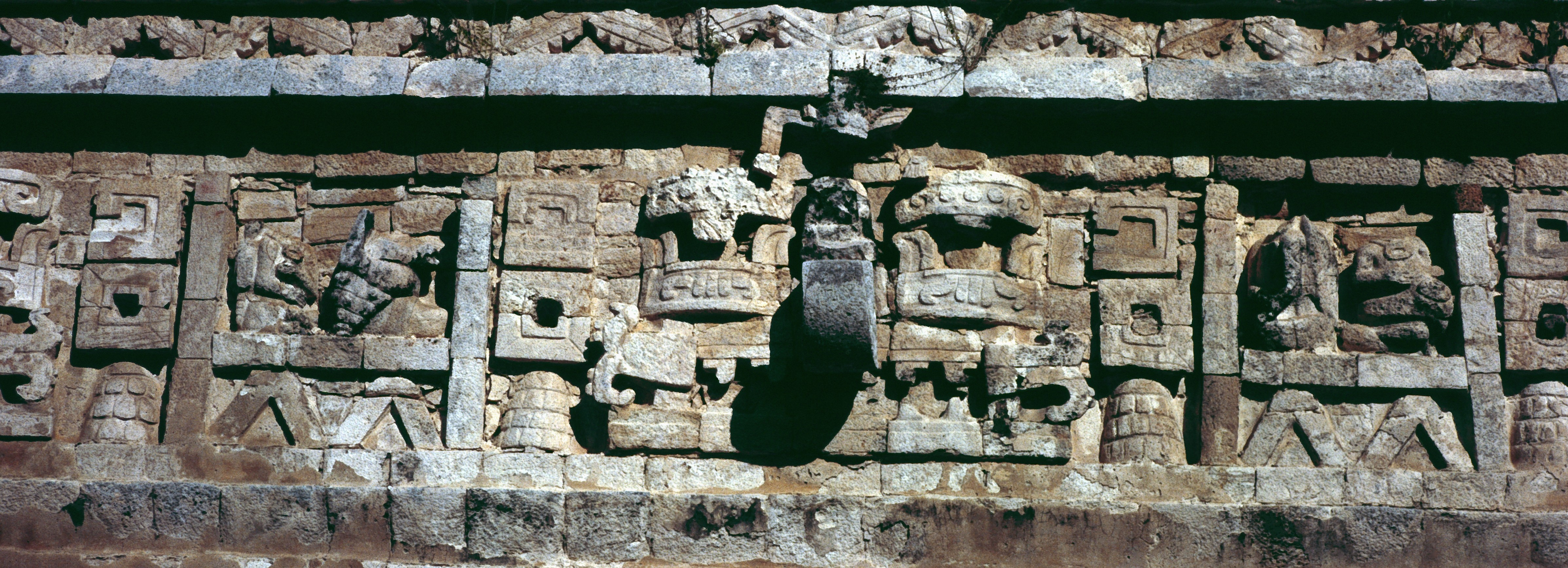 Chichen Itrza, Yucatan, Mexico: Iglesia, detail